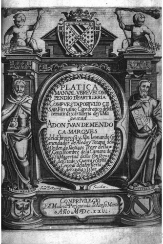 FrontPage of Platica Manual y Breve Compendio de Artilleria (1626) by Julio Cesar Firrufino (ca1585-1651)